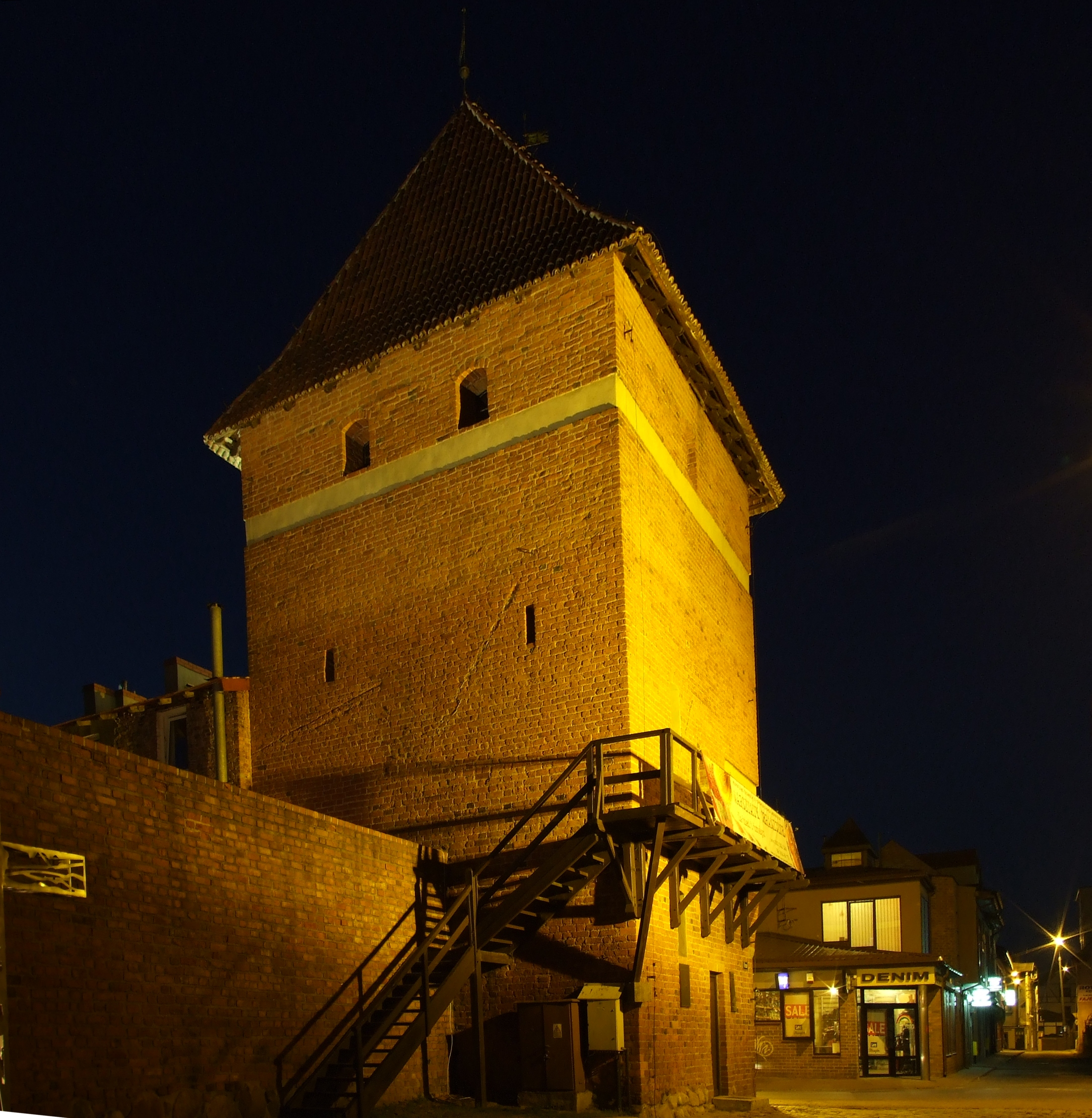 Medieval watchtower of Starogard Gdański defensive city walls; Pomeranian voivodeship, Poland